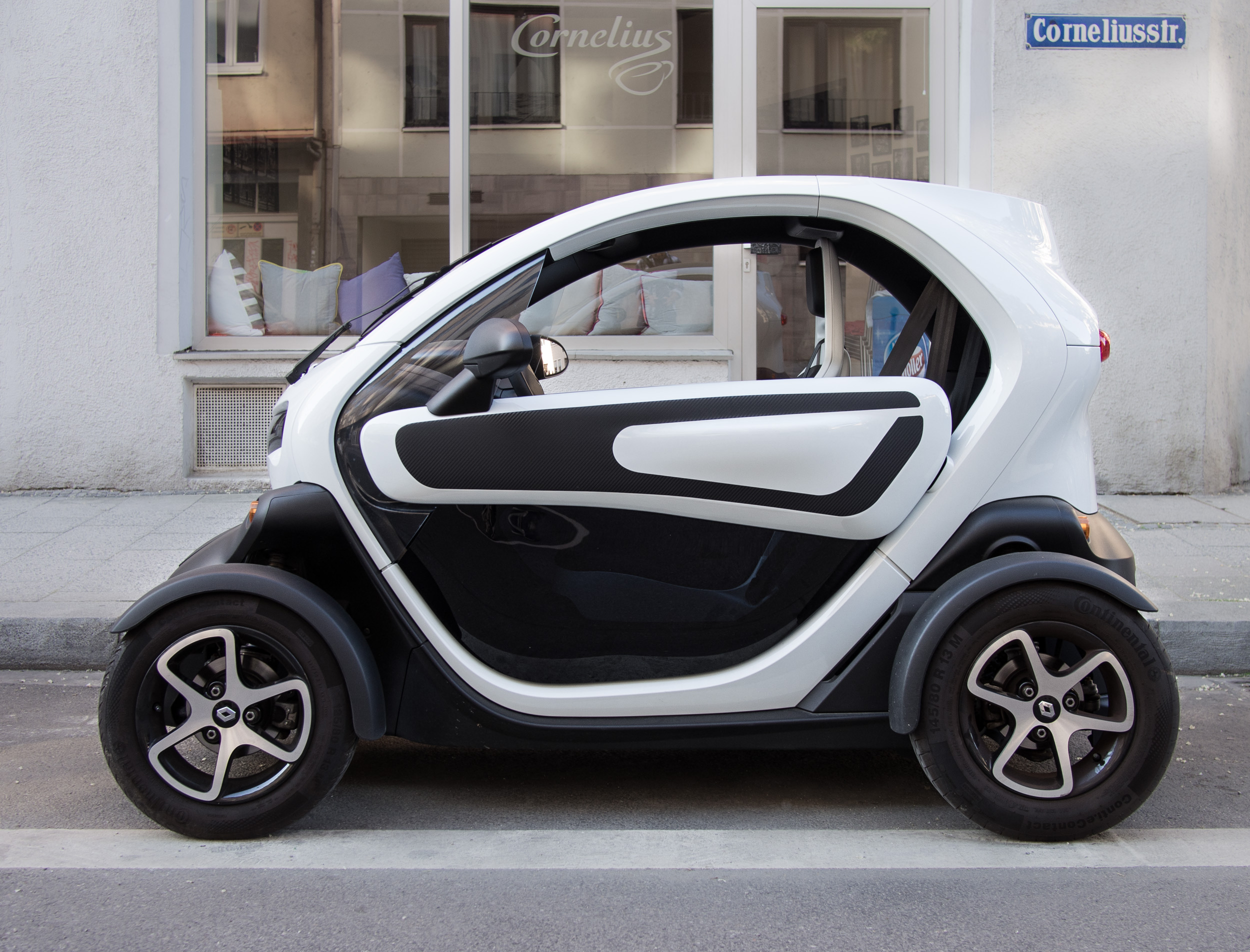 A Renault Twizy parked in Munich.